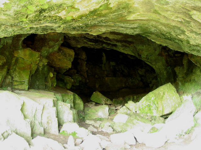 Cave at Gop Hill. Inside the main cave - there are others in the area. There are also lead mines.